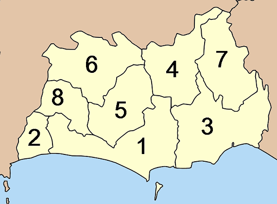 Map of the province Rayong with the districts (Amphoe) numbered. Mueang Rayong (อำเภอเมืองระยอง) Ban Chang (อำเภอบ้านฉาง) Klaeng (อำเภอแกลง) Wang Chan (อำเภอวังจันทร์) Ban Khai (อำเภอบ้านค่าย) Pluak Daeng (อำเภอปลวกแดง) Khao Chamao (sub-district) (กิ่งอำเภอเขาชะเมา) Nikhom Patthana (sub-district) (กิ่งอำเภอนิคมพัฒนา)